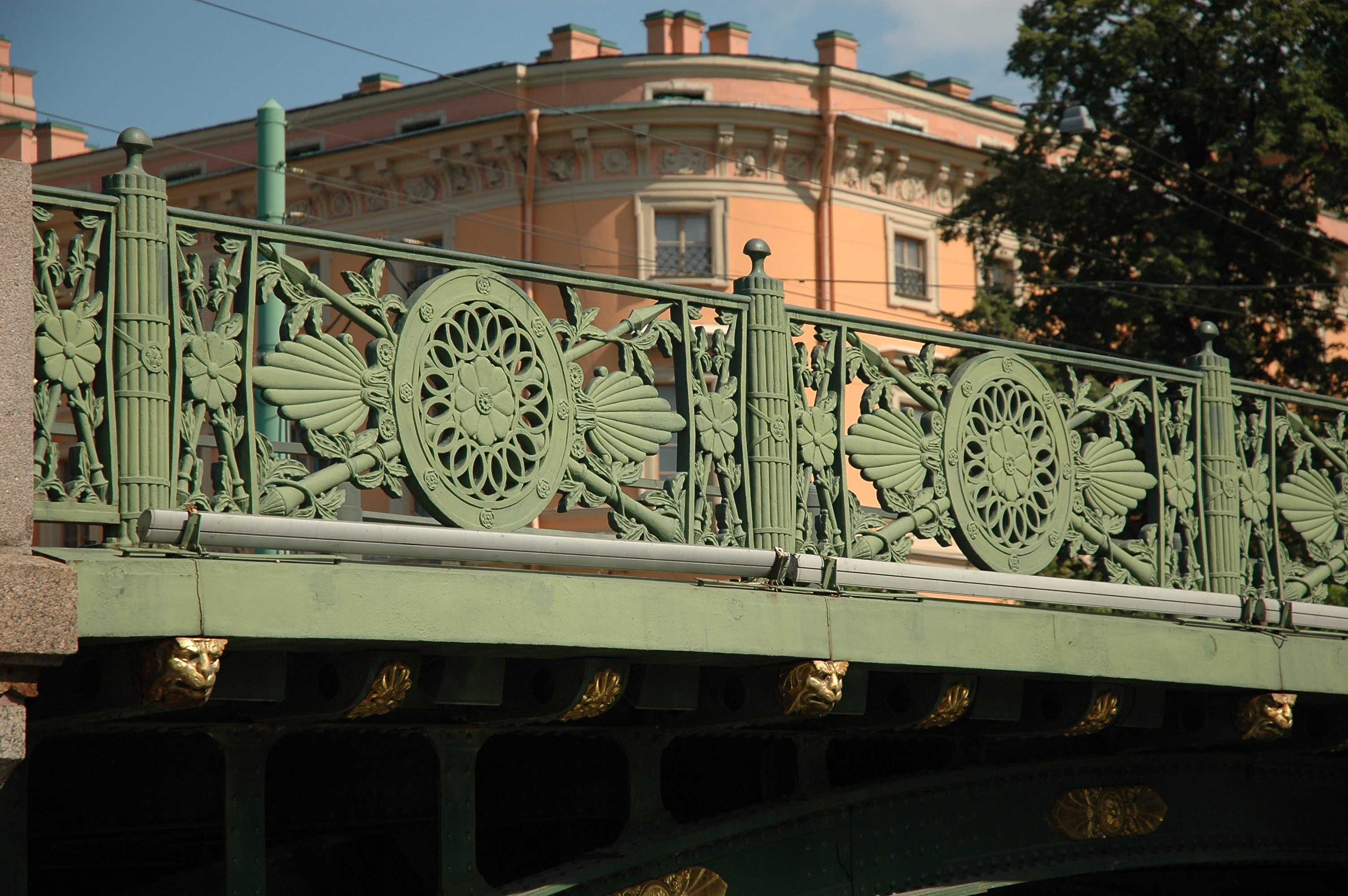 First Garden bridge across Moika river in St Petersburg (fence)